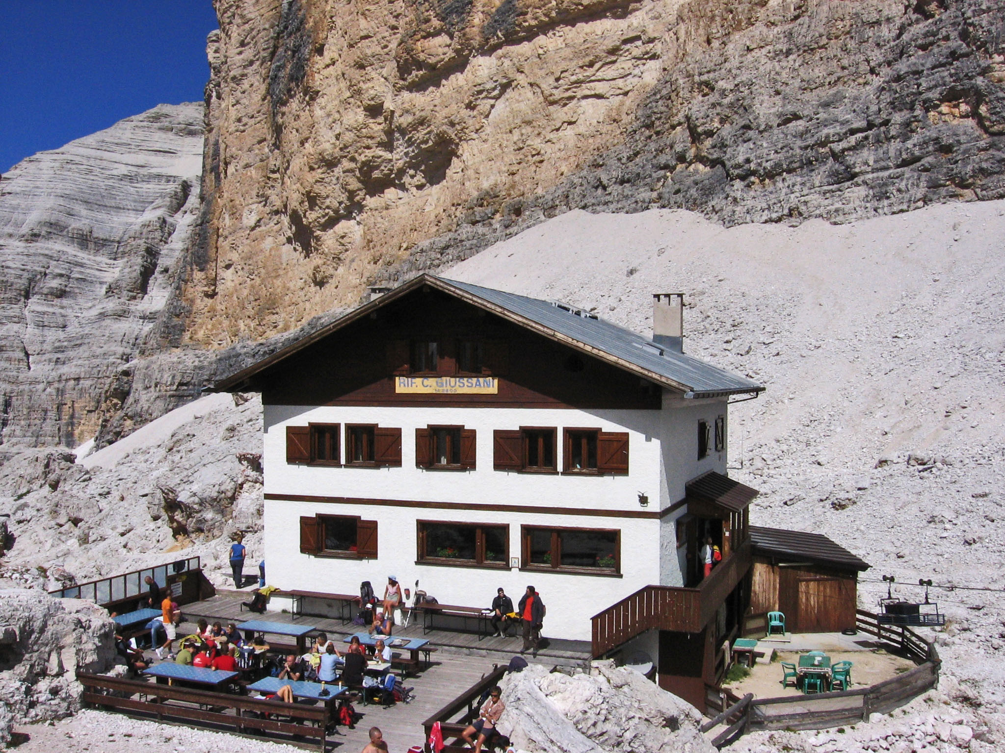 The alpine hut "Rifugio Camillo Giussani"